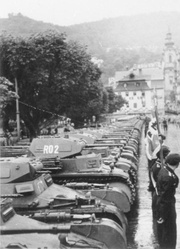 "March into the Sudetenland. Führer visit. Parade line-up of a Panzer regiment in the theatre square. 4 October 1938 11:45 A.M. Carlsbad, Sudetenland" Information added by Wikimedia users.